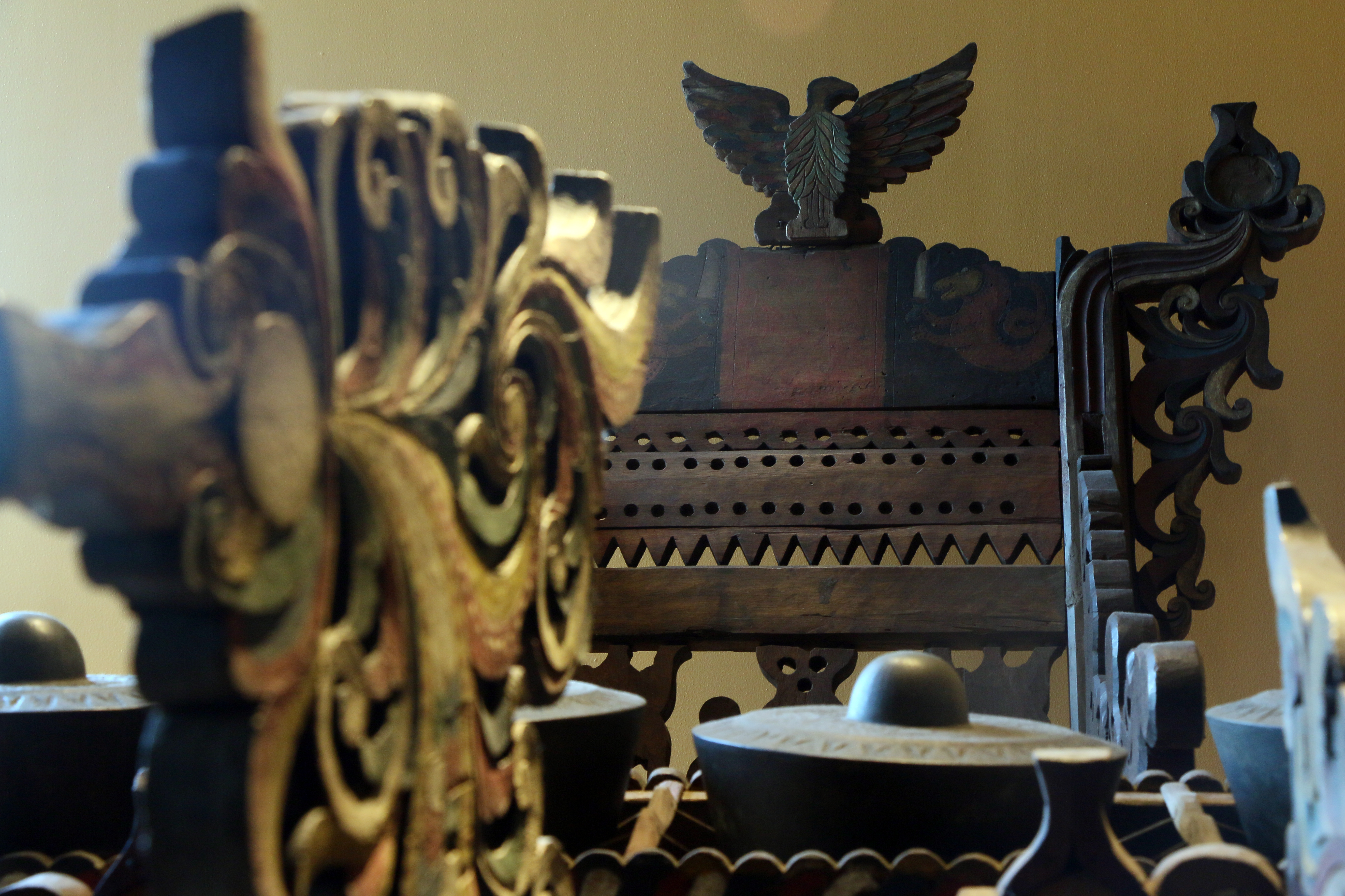 Bangsa